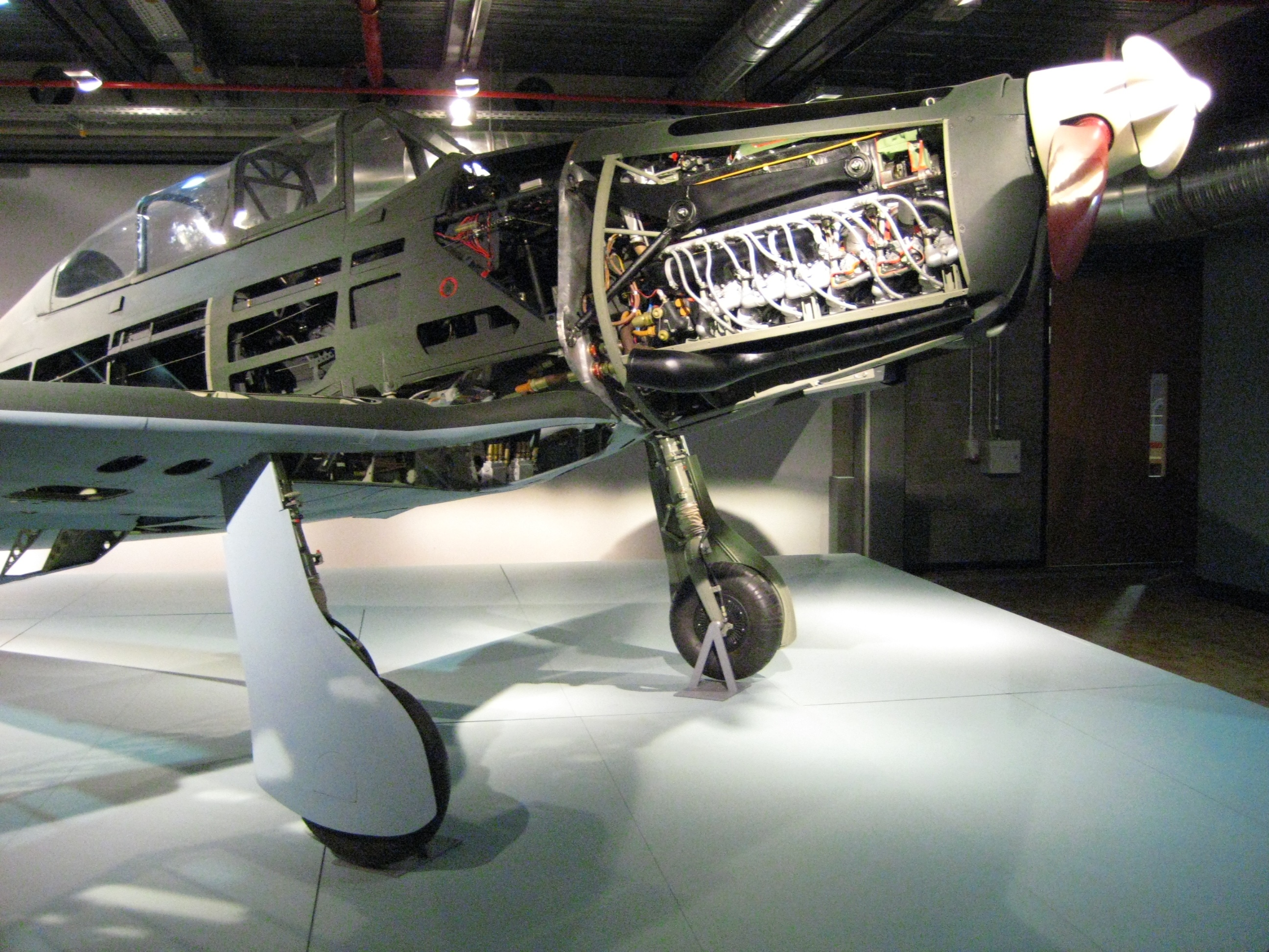 Arado Ar 96 B-1, Avia AG, Prague, year of manufacture 1943, motor 410a (340 hp) German Museum of Technology Native nameDeutsches Technikmuseum BerlinLocationBerlinCoordinates52° 29′ 55″ N, 13° 22′ 39″ E Established1983Web page control : Q706530 VIAF: 150642200 ISNI: 0000 0001 0121 6426 LCCN: n97103087 GND: 2162237-1 SUDOC: 075899728 WorldCat institution QS:P195,Q706530